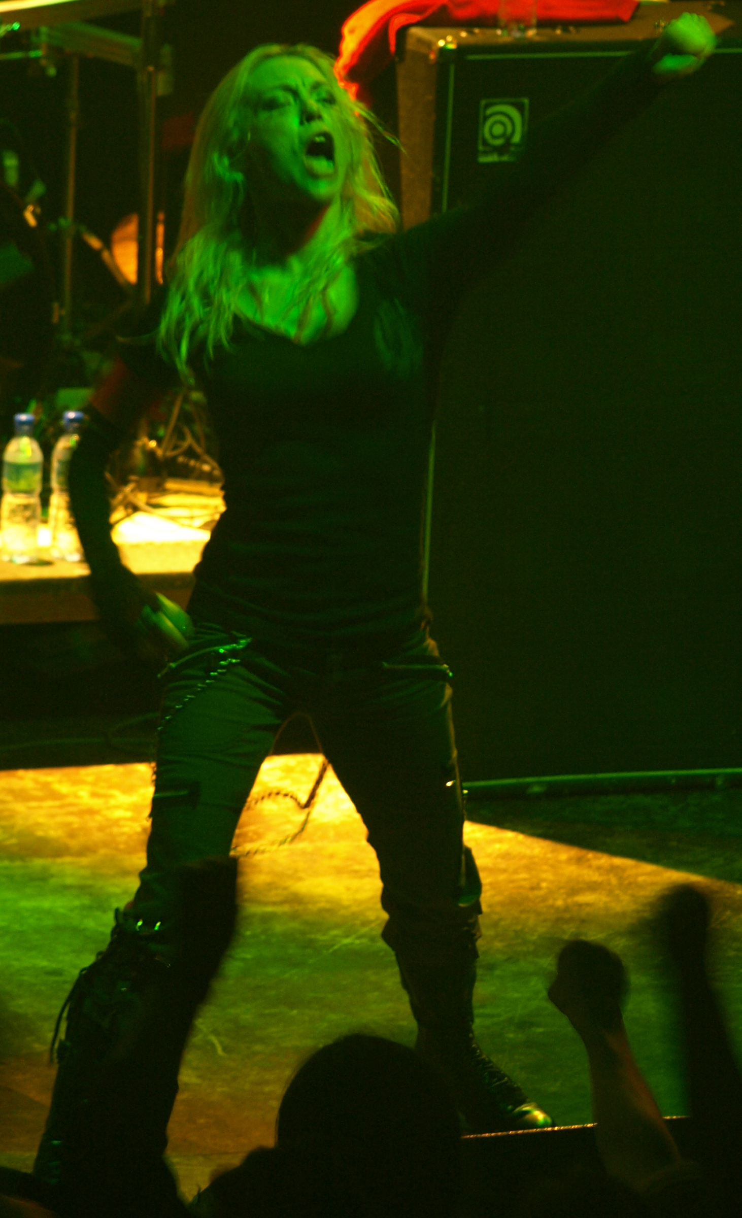 Swedish melodic death metal band Arch Enemy